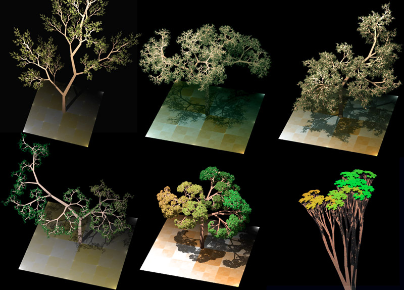 Fractal trees. The images of the trees was generated from using a L-system. The fractal used is a varied dragon curve, the last image is actually a Harter-Heighway dragon curve.